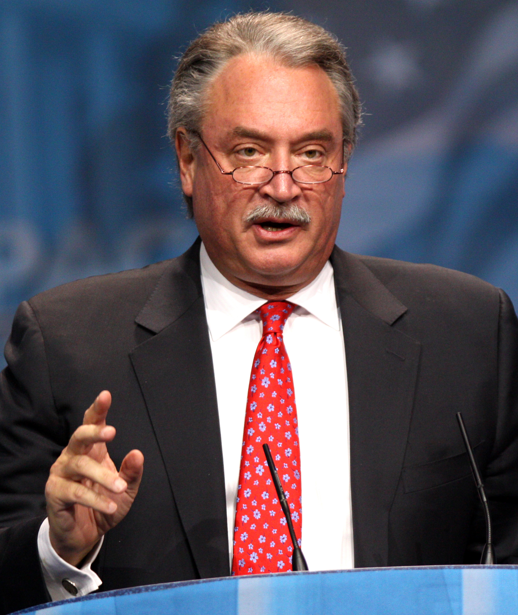 Alex Castellanos speaking at the 2013 CPAC in Washington D.C. on March 15, 2013.